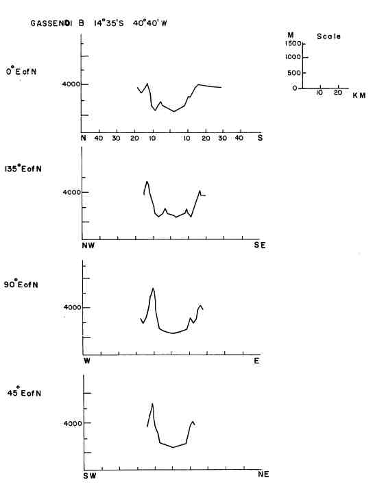 Gassendi crater cross section